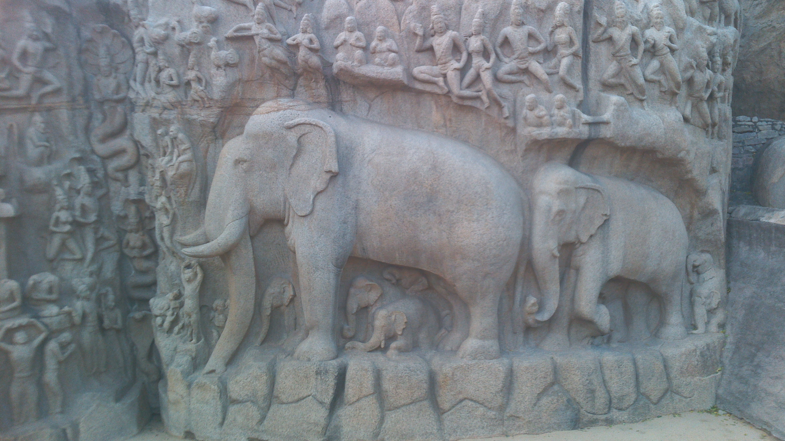 Mahabalipuram elephant statue